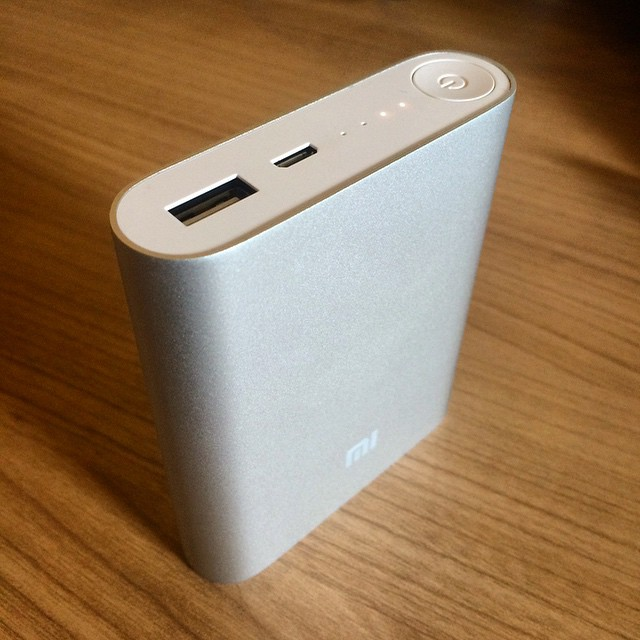 Xiaomi Powerbank 10400mAh